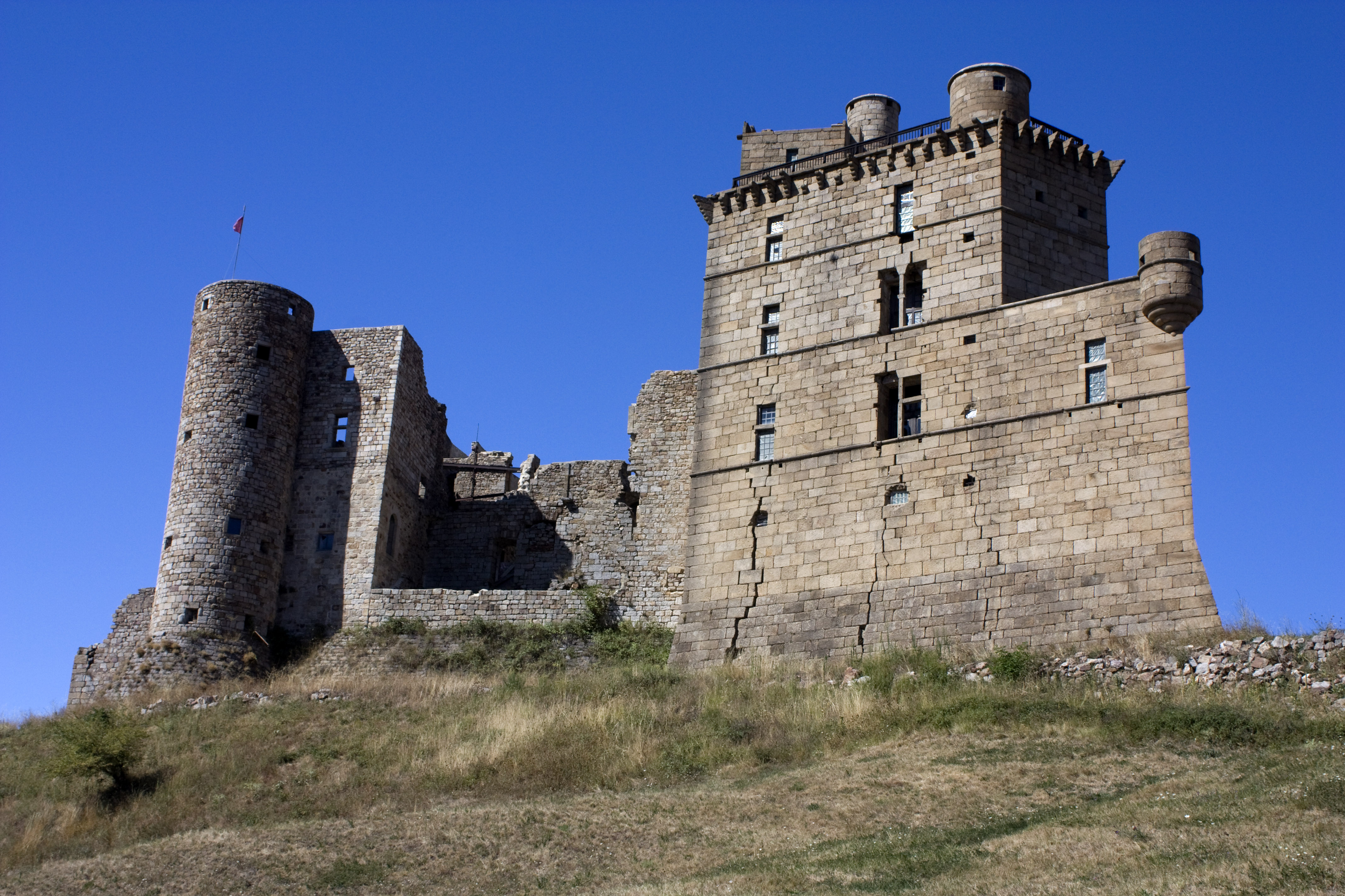 The south facade has cracked during the collapse of mine tunnels drilled under the castle which subside, outright, of 75 cm. Only the south wall collapsed.